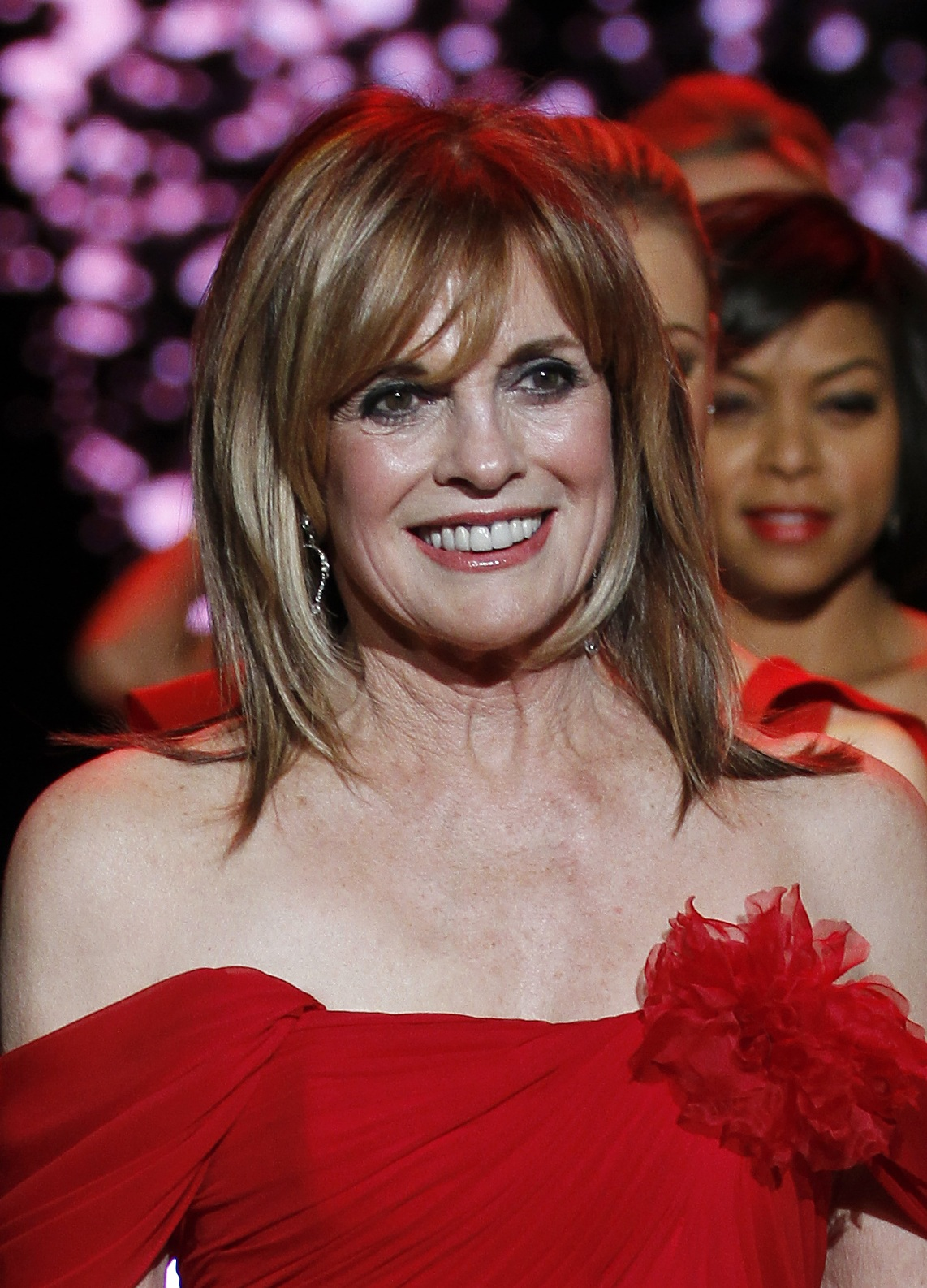 Making its debut at the Lincoln Center venue, The Heart Truth’s Red Dress Collection Fashion Show unveiled its 2011 collection of red dresses designed to celebrate the Red Dress as the national symbol for women and heart disease awareness. More than 20 of today’s top celebrities walked the runway in red dresses by America’s top designers to inspire women to take action to protect their heart health. The Heart Truth® is a national awareness campaign for women about heart disease sponsored by the National Heart, Lung, and Blood Institute (NHLBI), part of the National Institutes of Health, U.S. Department of Health and Human Services (HHS). ® The Heart Truth, its logo and The Red Dress are registered trademarks of HHS. Participation by Mercedes-Benz Fashion Week, Diet Coke, Swarovski, AOL, and Bobbi Brown does not imply endorsement by HHS.